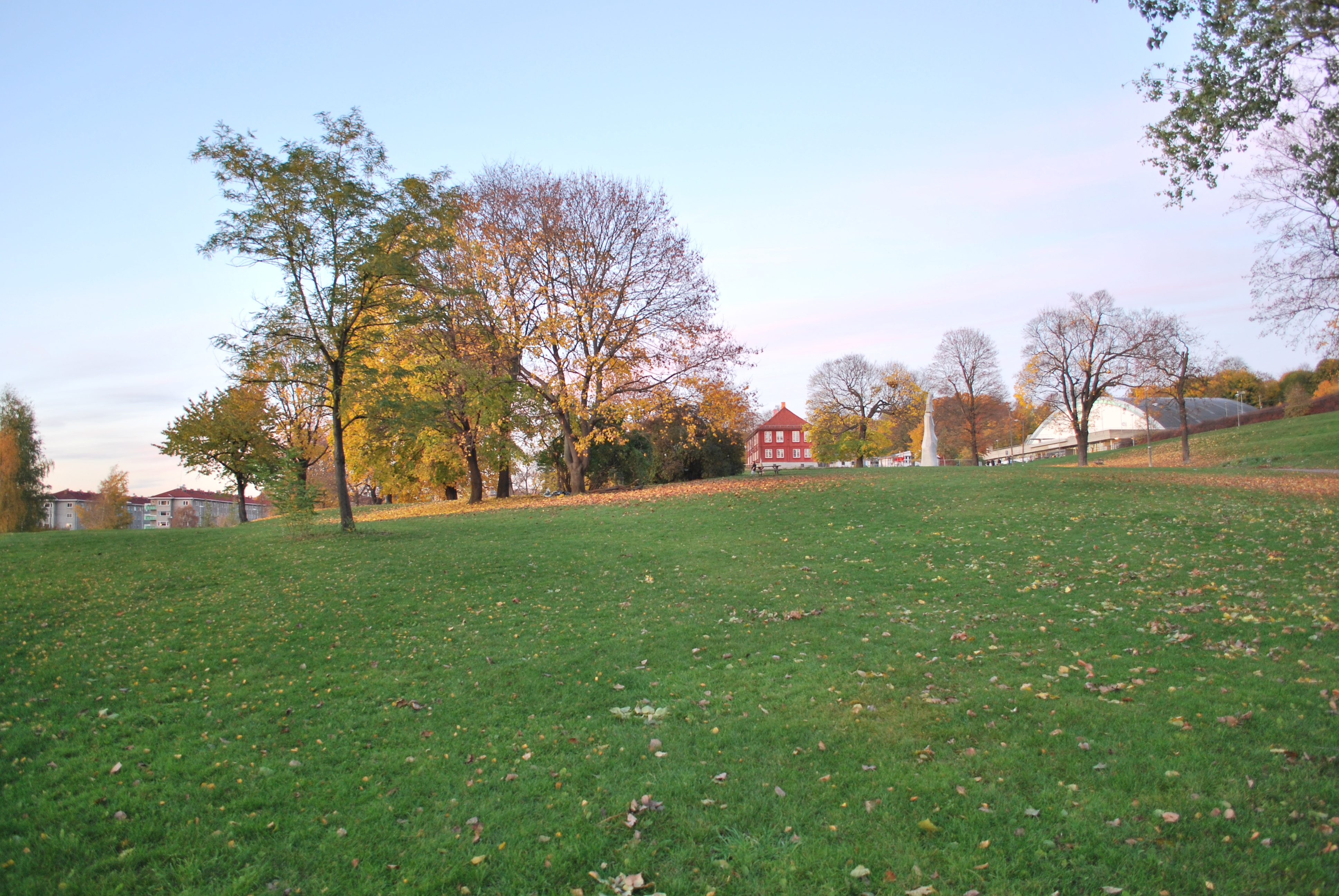 Tøyenparken with the mansion Bellevue